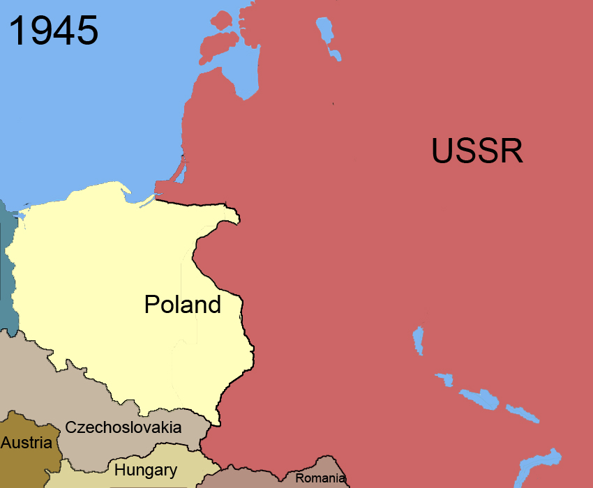 Poland 1945